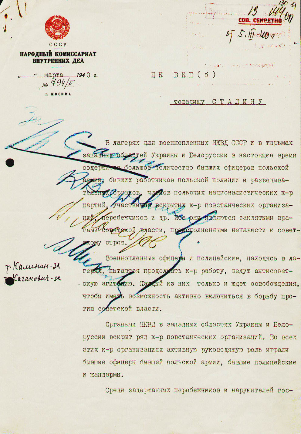 The accepted proposal of Lavrentiy Beria to execute former Polish army and police officers in NKVD prisoner of war camps and prisons. March 1940. TOP SECRET From the Central Committee of the Communist Party of the Soviet Union to comrade STALIN In the NKVD POW camps and in the prisons of the western oblasts of Ukraine and Belorussia there is currently a large number of former officers of the Polish army, former Polish police officers and employees of intelligence agencies, members of Polish nationalist c-r (counterrevolutionary) parties, participants in underground c-r rebel organizations, defectors and so on. All of them are implacable enemies of Soviet power and full of hatred for the Soviet system. POW officers and policemen located in the camps are attempting to continue c-r work and are leading anti-Soviet agitation. Each of them is simply waiting to be freed so they can have the opportunity to actively join the fight against Soviet power. NKVD agents in the western oblasts of Ukraine and Belorussia have uncovered a number of c-r rebel organizations. In each of these c-r organizations the former officers of the former Polish army and former Polish police officers played an active leadership role. Among the detained defectors and violators of the state- (Signatures: In favor - Stalin, Voroshilov, Molotov, Mikoyan) (In margin: Comrade Kalinin - In favor. Comrade Kaganovich - In favor.)